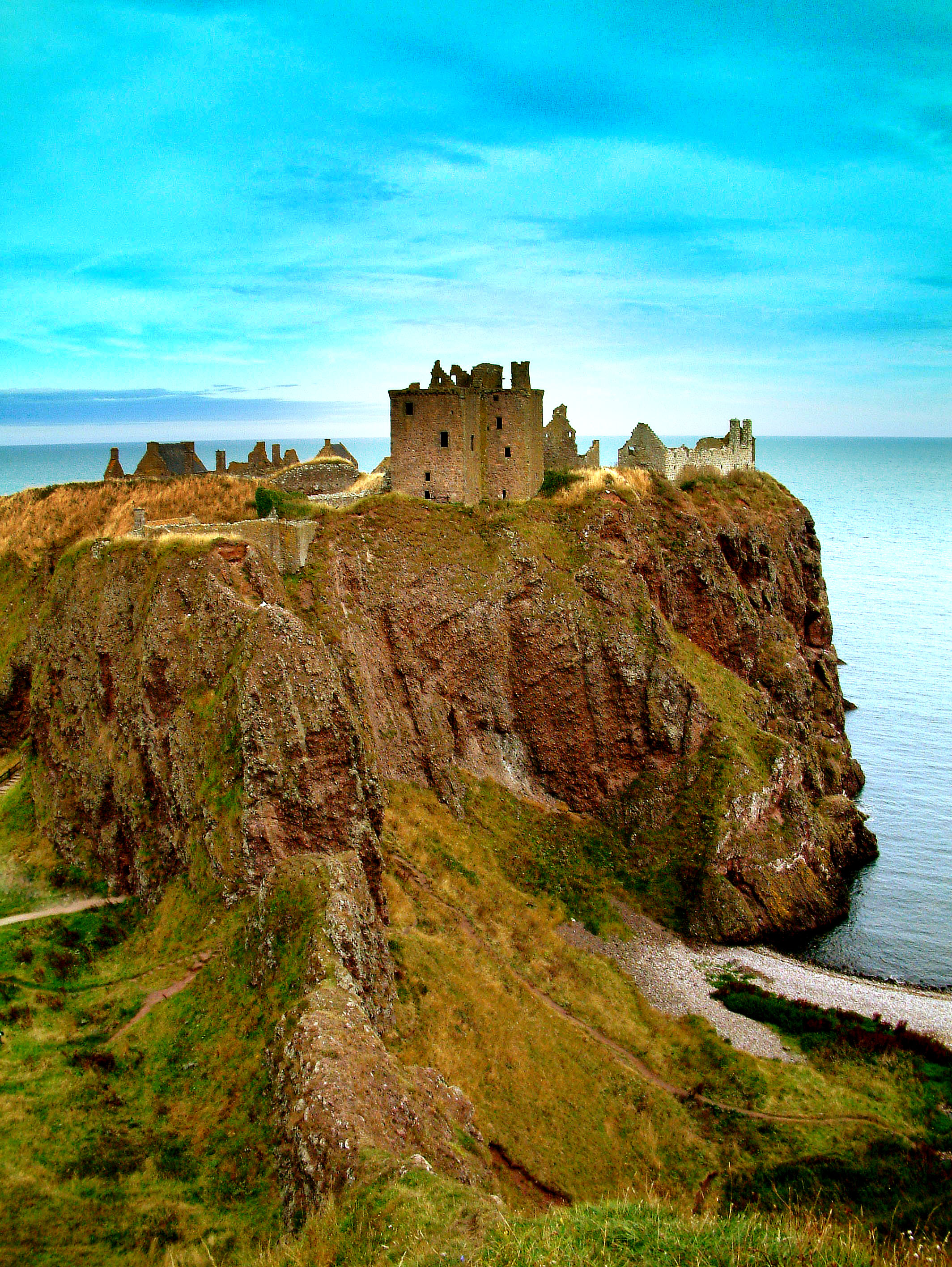 Dunnottar Castle - Scotland